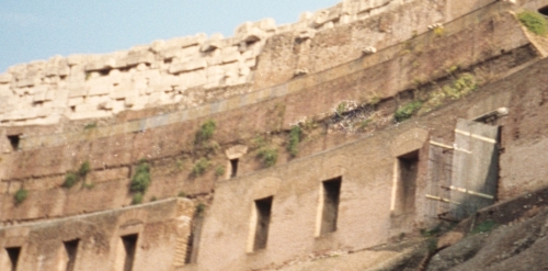 I shot this picture, do what you wish.